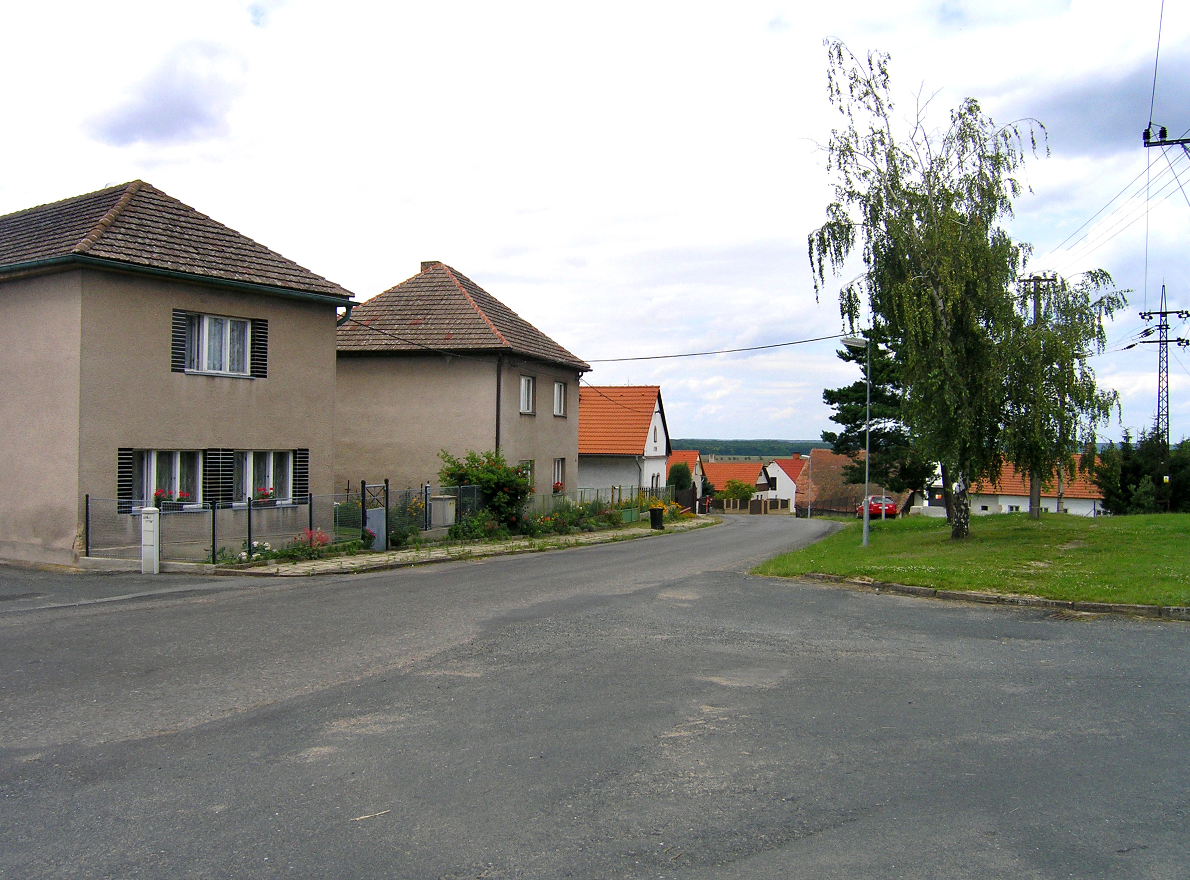 Common in Lipec village, Czech Republic